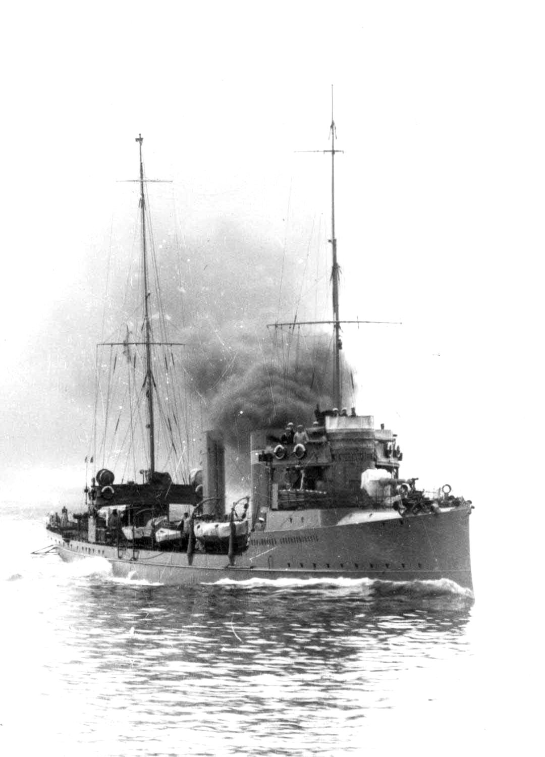 The Imperial Russian squadron torpedo boat (destoyer) «Turkmenets-Stavropol'skiy».